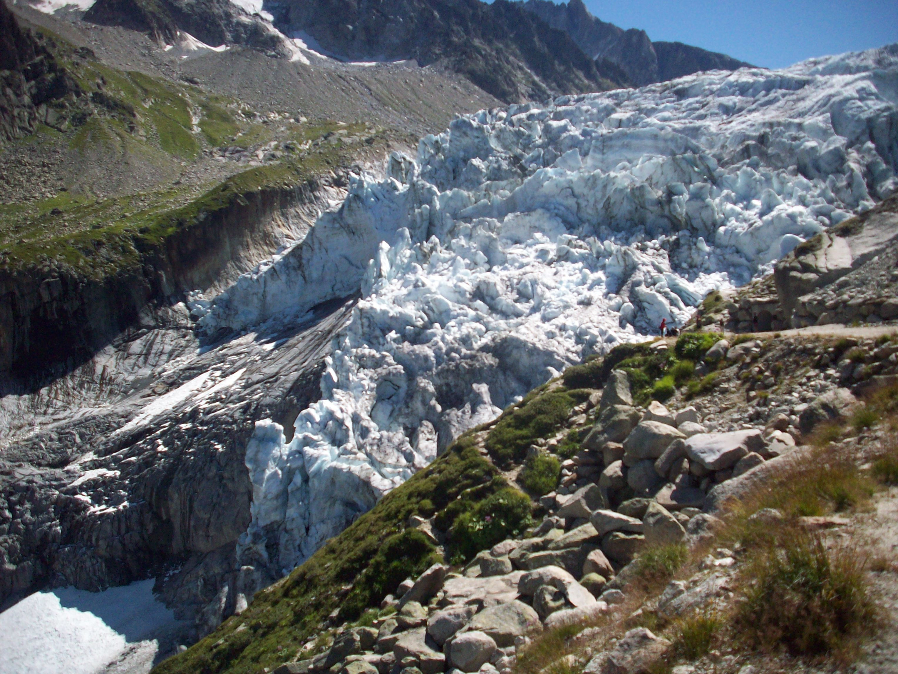 Icefal on the Glacier d'Argentière.